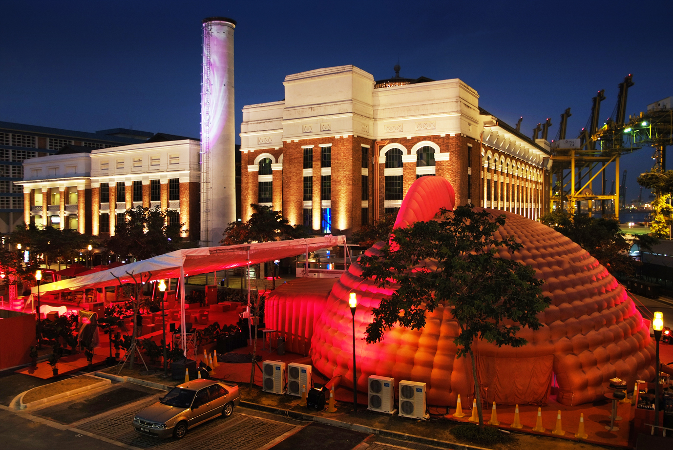 This Power Station will blast your night away. One of the hottest night entertainment centre in Singapore! The red dome on the foreground is only a temporary shelter for an event related to the F1. On the far background to the right is the busy Port of Singapore. History: Built in 1927, this building was Singapore's first coal-fired power plant supplying electricity to nearby shipyards, industry and residences.